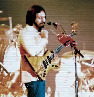 Some snaps taken years ago. John Entwistle, The Who, Toronto Maple Leaf Gardens, Oct 1976